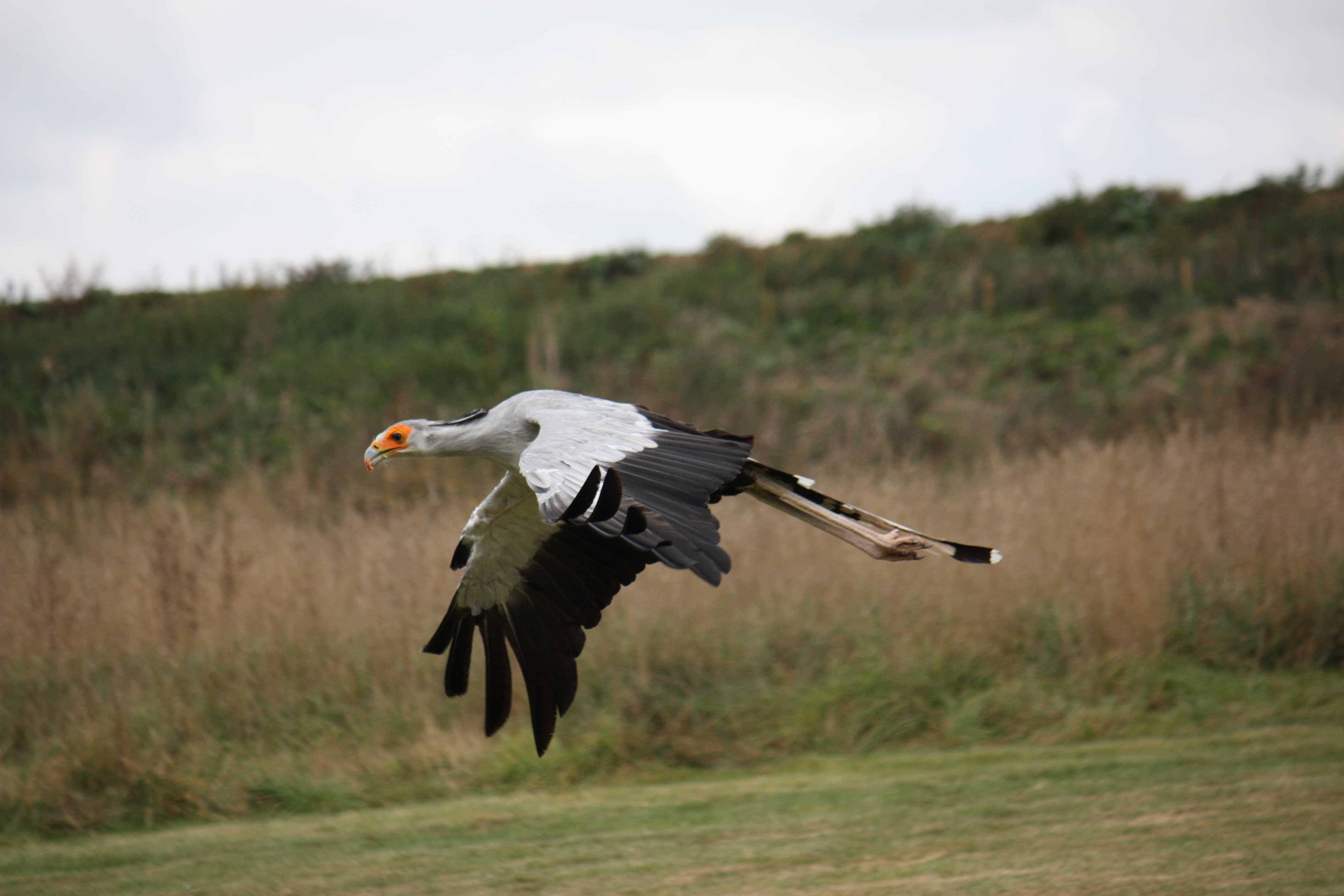 Secretary Bird (also known as Secretarybird) flying at a bird conservation trust.